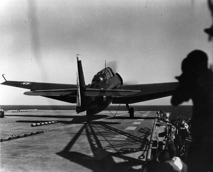 The French aircraft carrier La Fayette (R96) prepares to launch a Grumman TBM-3E Avenger (U.S. Navy BuNo 85684) from her starboard catapult, during the 1950s.